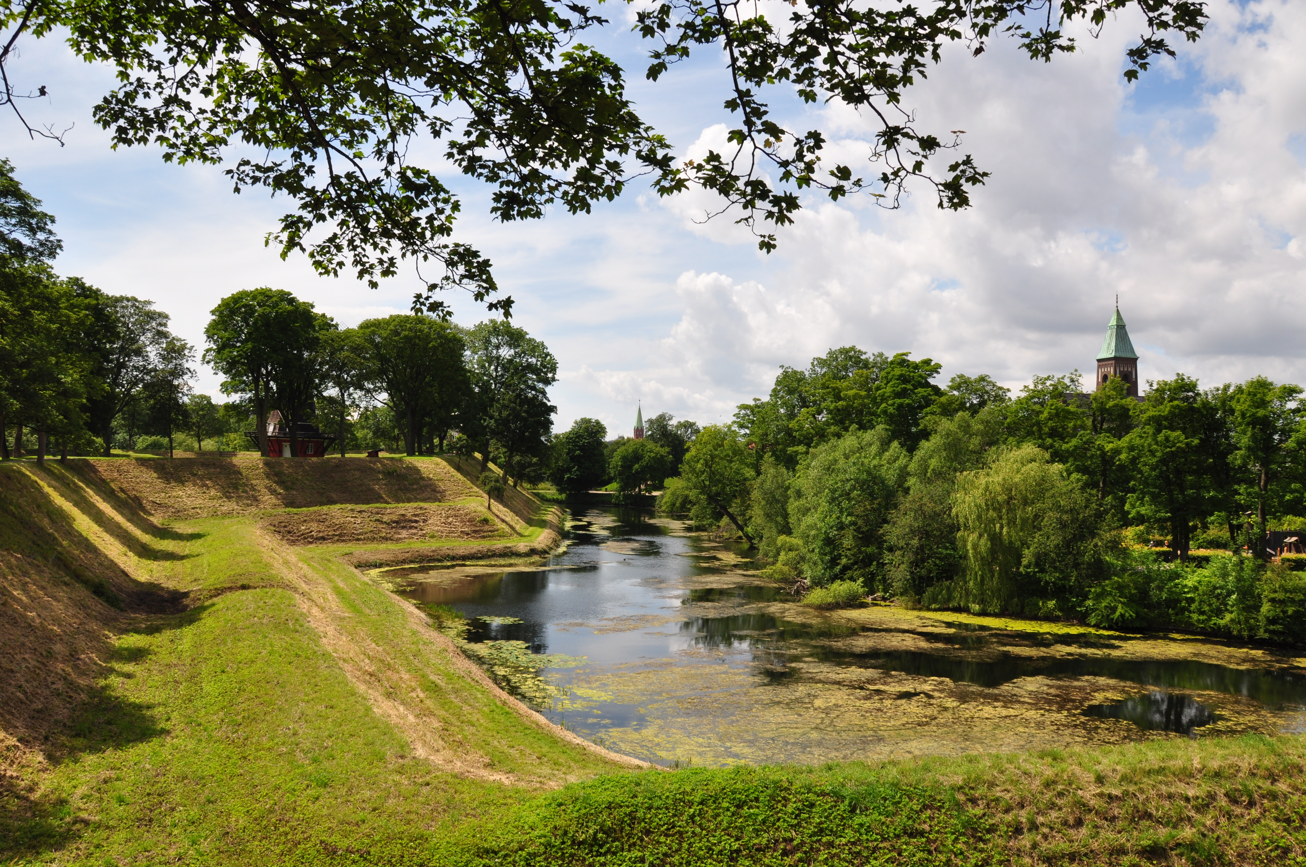 Part of the moat of Kastellet in Copenhagen viewed from Prinsens Bastion.